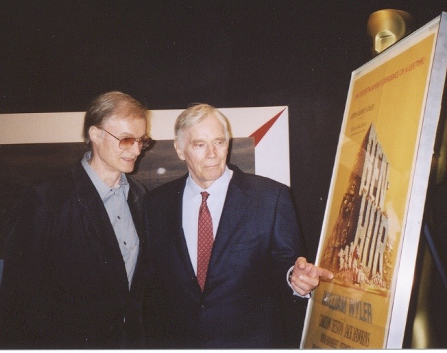 Claude Heater and Charlton Heston at the Academy Final Showing of Ben Hur.